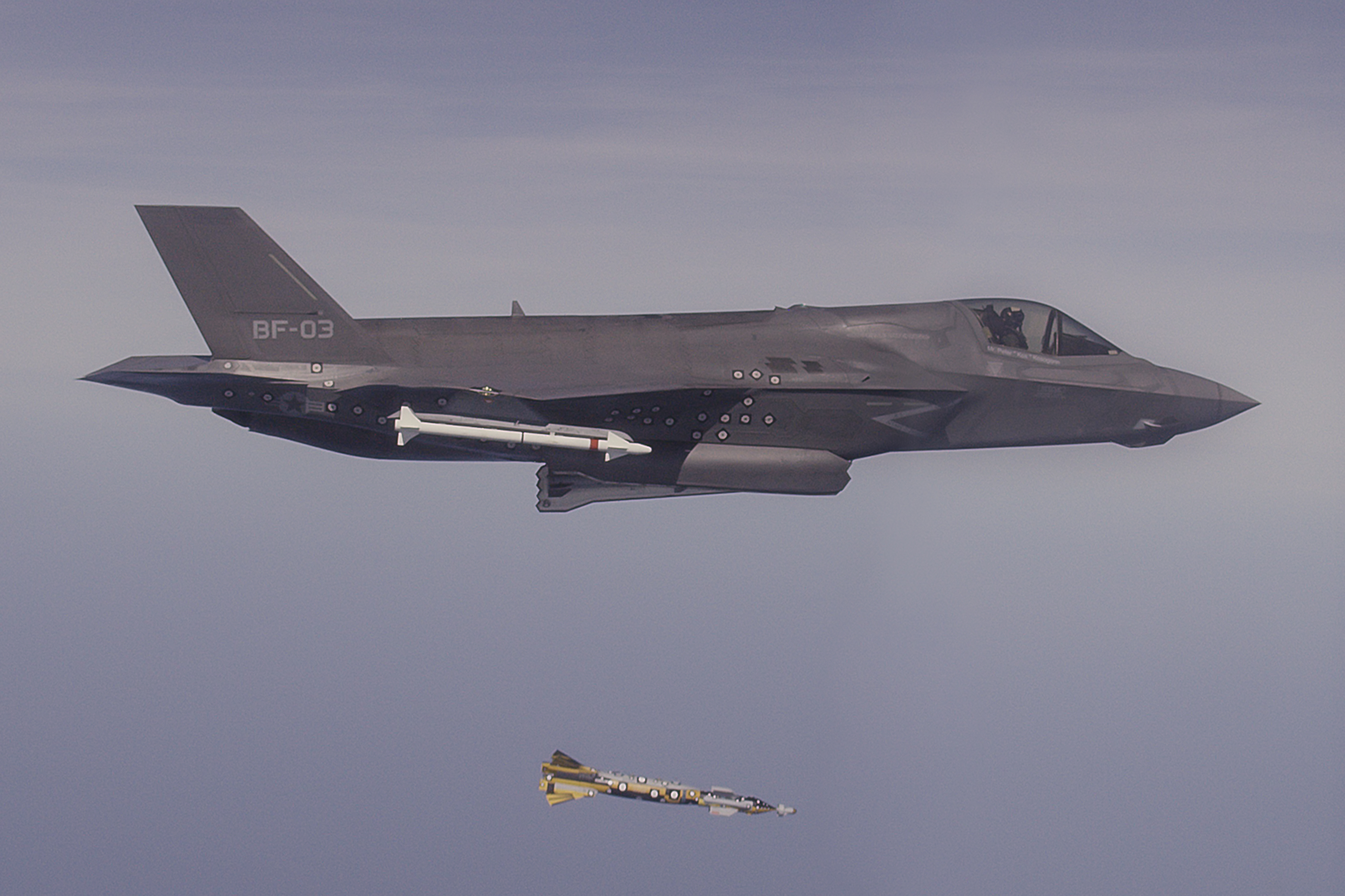 The F-35 Lightning II Pax River Integrated Test Force from Air Test and Evaluation Squadron 23 conducted the first weapons separation test of the UK’s Paveway IV precision-guided bomb from an F-35B Lightning II short take-off/vertical-landing variant June 12. During flight 461 over the NAVAIR Atlantic Test Ranges, RAF Squadron Leader Andy Edgell dropped two inert Paveway IV bombs from aircraft BF-03. This test is the first of a series of UK weapons separation events scheduled for 2015.